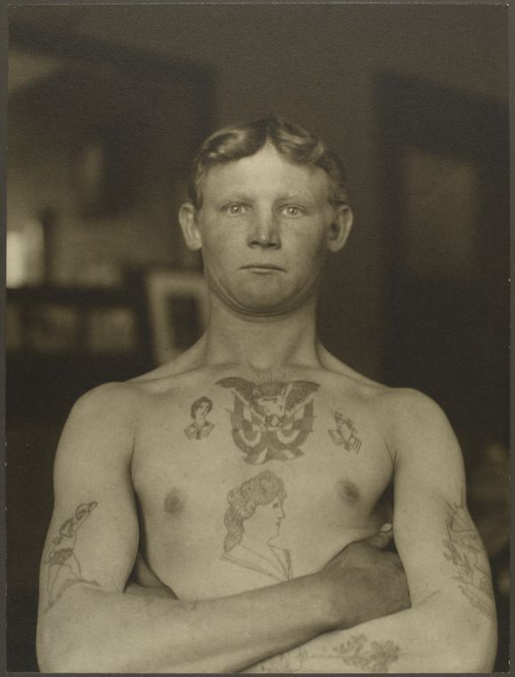 Digital ID: 418057. Sherman, Augustus F. (Augustus Francis) -- Photographer. [1911] Notes: Varient print reproduced in Peter Mesenholler 'Augustus F. Sherman: Ellis Island Portraits 1905-1920' (c1905) p.86 bears typed caption: Tattooed German stowaways deported May, 1911. Source: William Williams papers / Photographs of immigrants ( Repository: The New York Public Library. Manuscripts and Archives Division. See more information about and others at Persistent URL: Rights Info: No known copyright restrictions; may be subject to third party rights (for more information